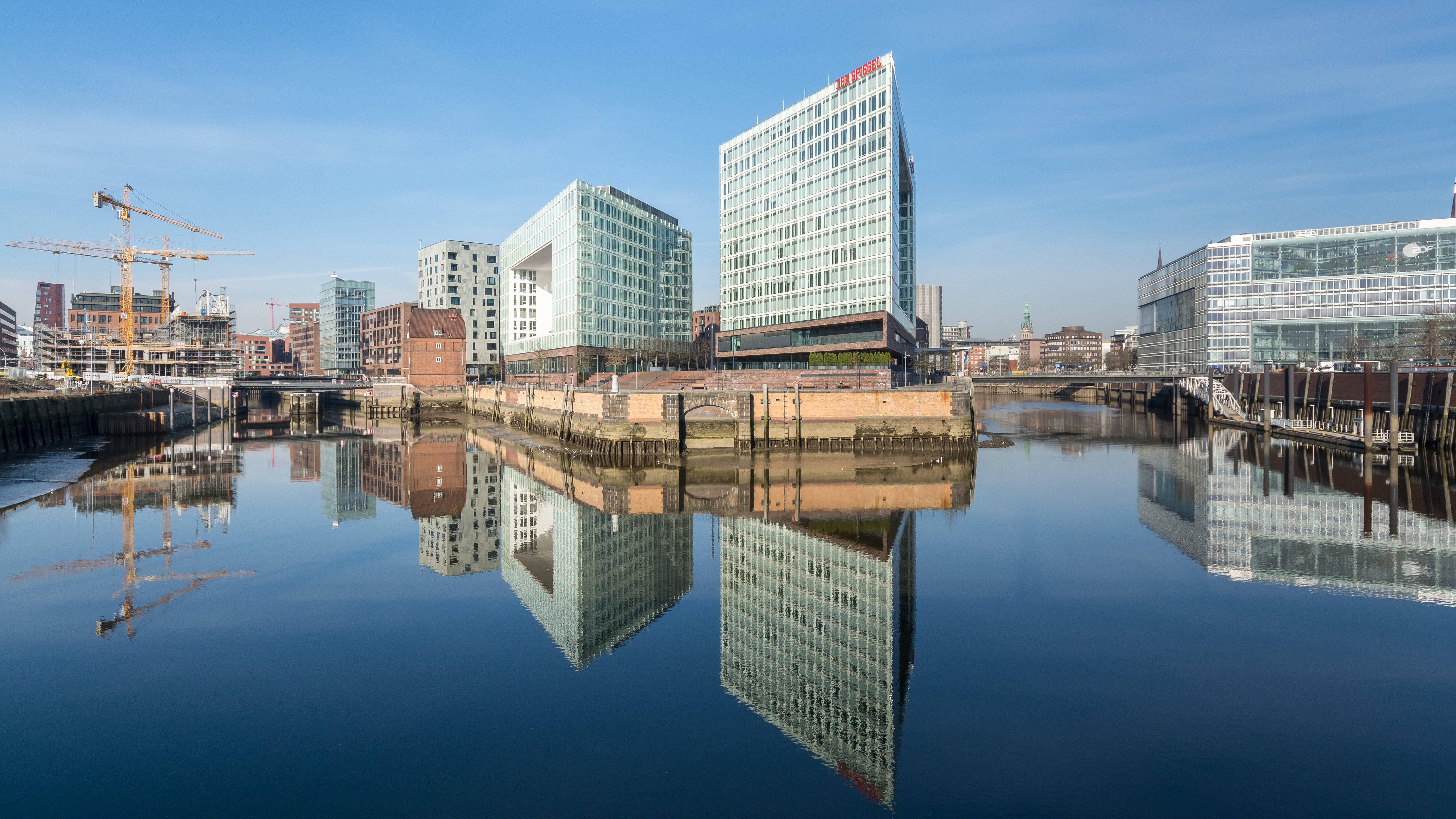 Historic quay wall Ericushöft and surroundings in Hamburg. This is a photograph of an architectural monument.